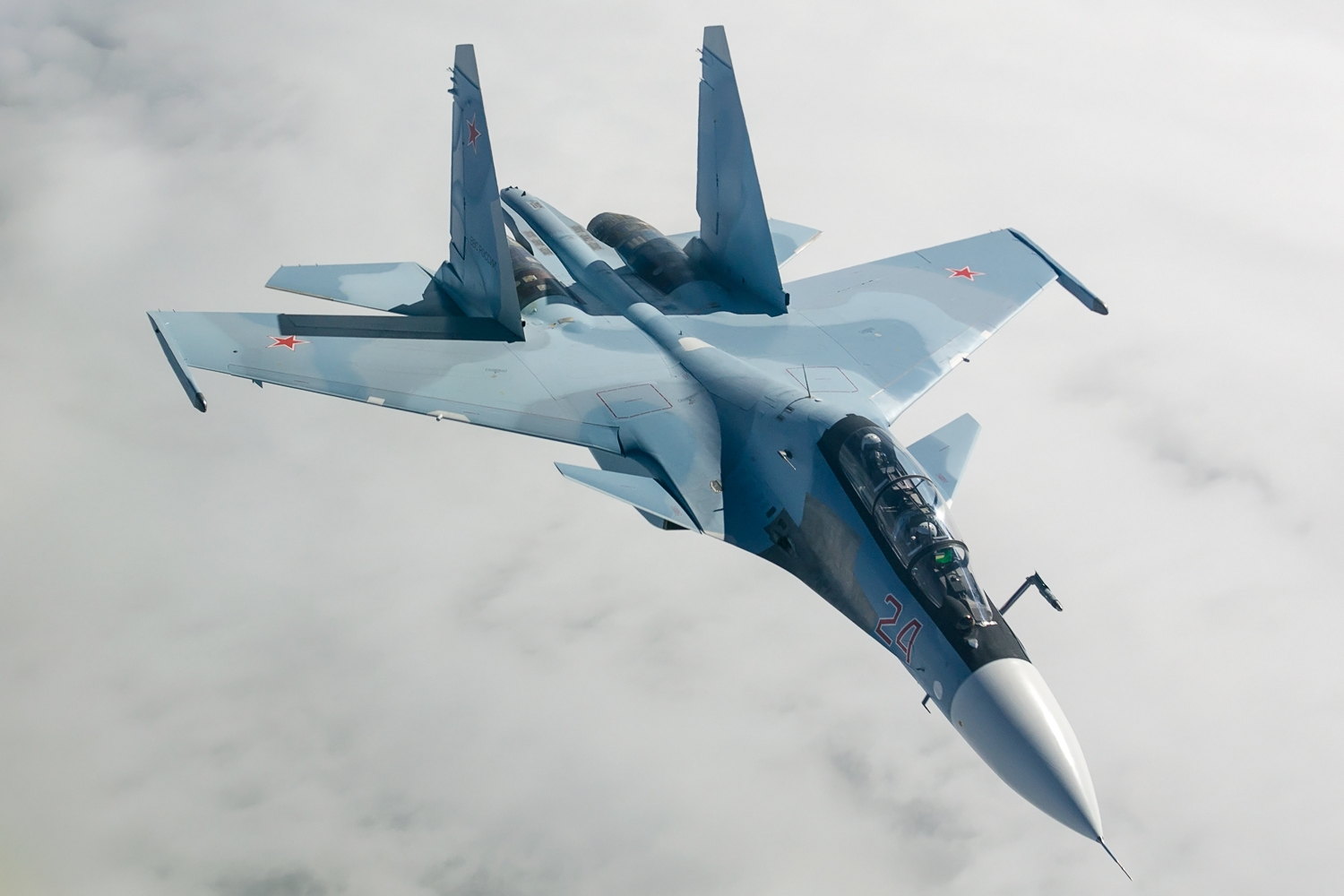 Sukhoi Su-30SM inflight